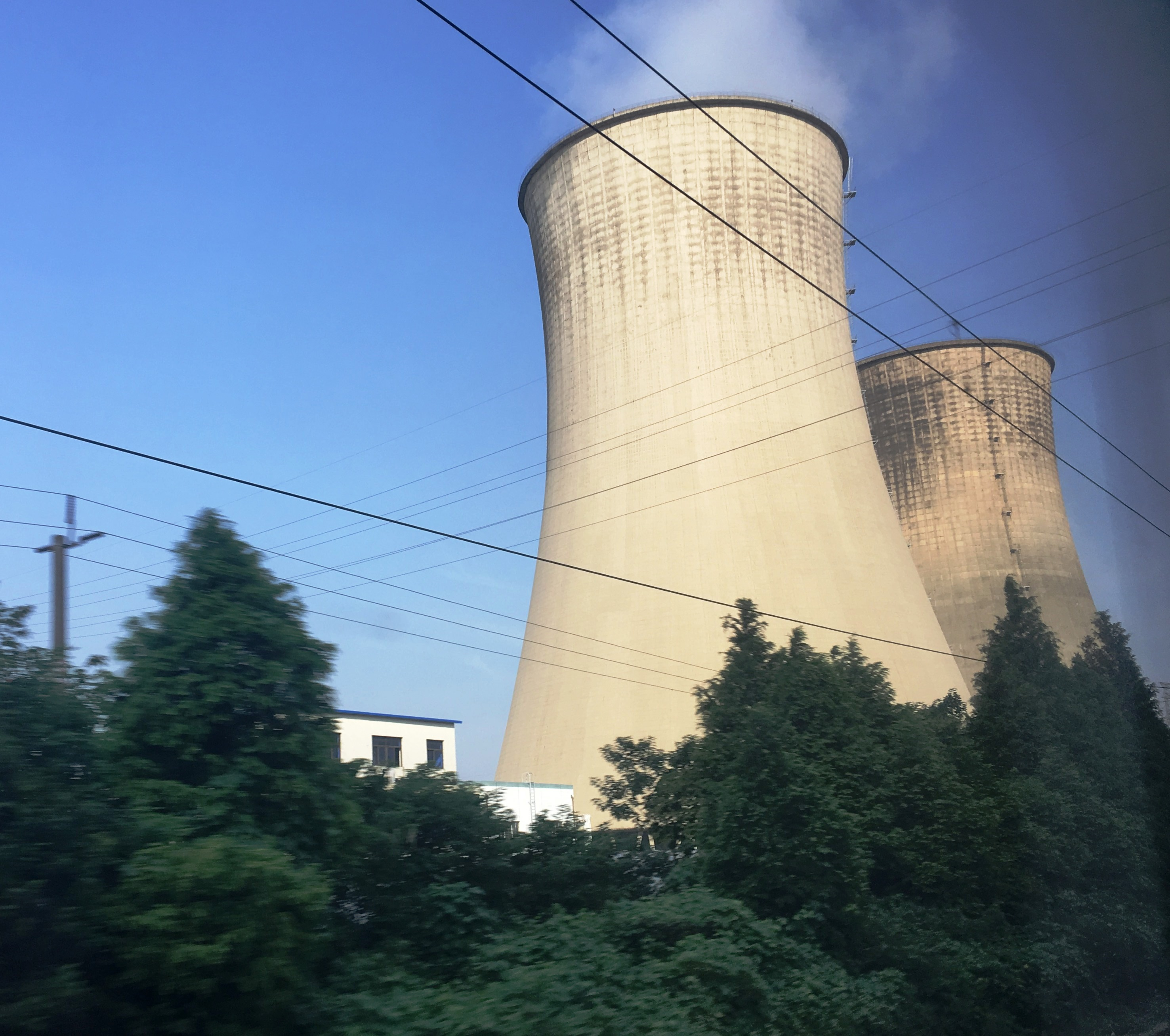 The "Jiangsu Huadian Qishuyan Power Station" in southeastern Changzhou, Jiangsu (China). This is a gas-fired, combined-cycle power generating plant.